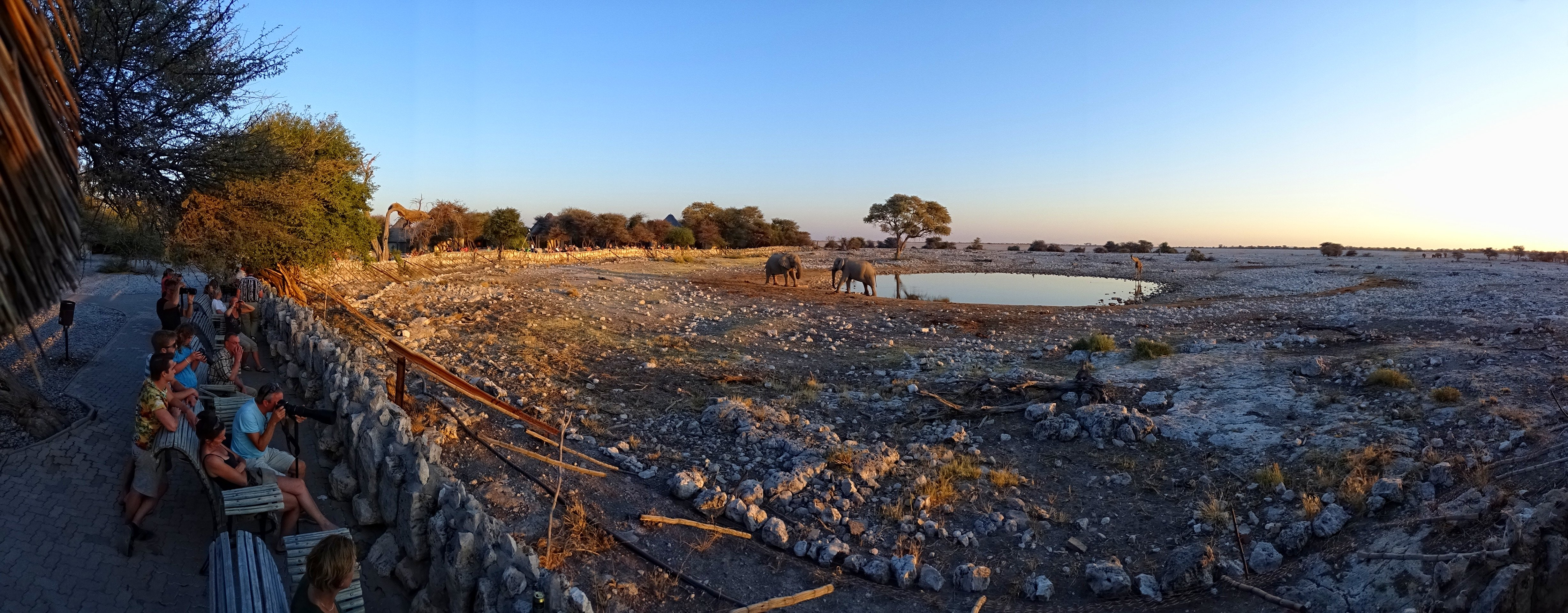 The waterhole at Okaukuejo camp in Etosha national park in Namibia, as seen from the northern end of the viewing plateau, towards the south.